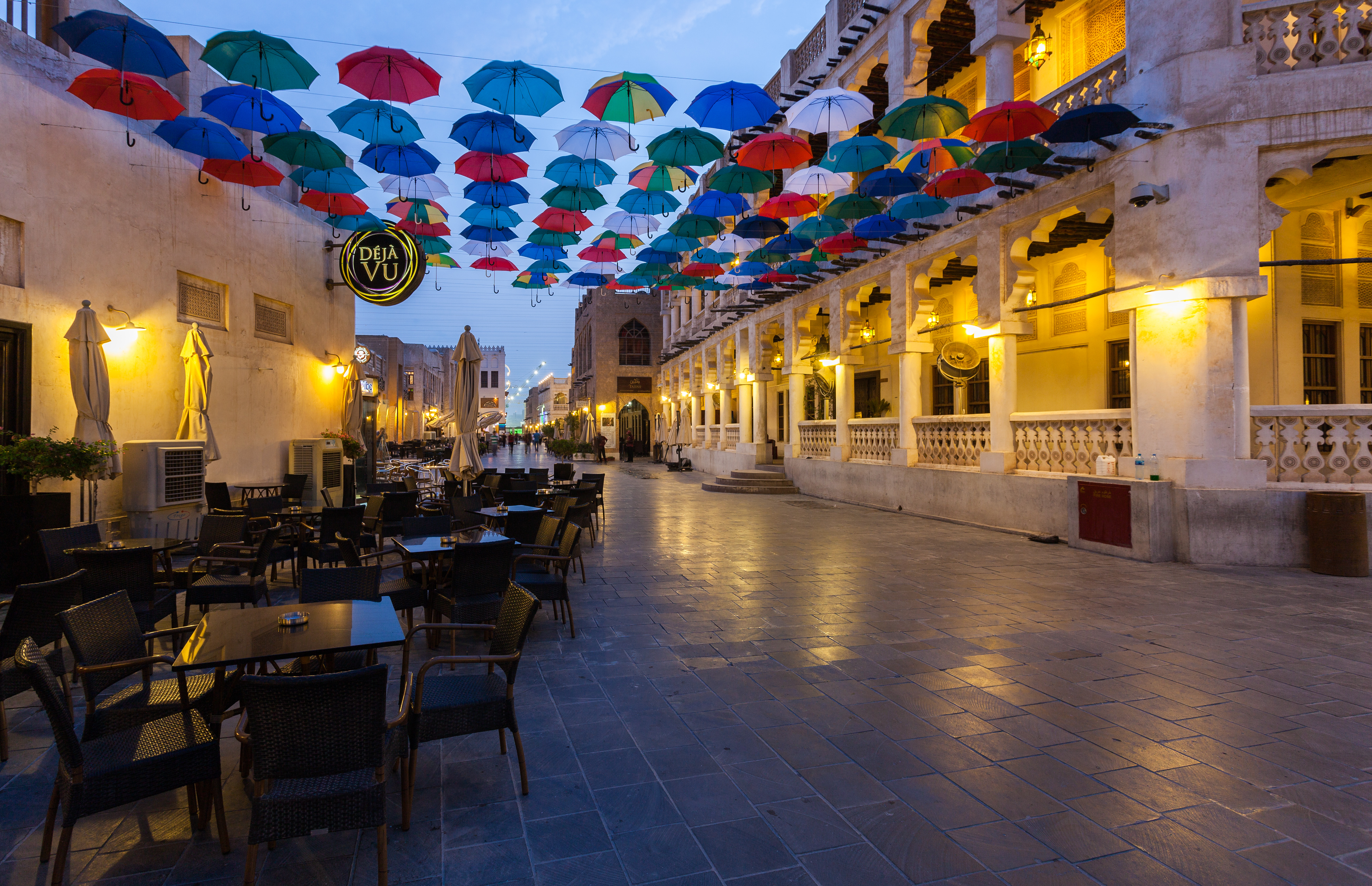 Souq Waqif, Doha, Qatar